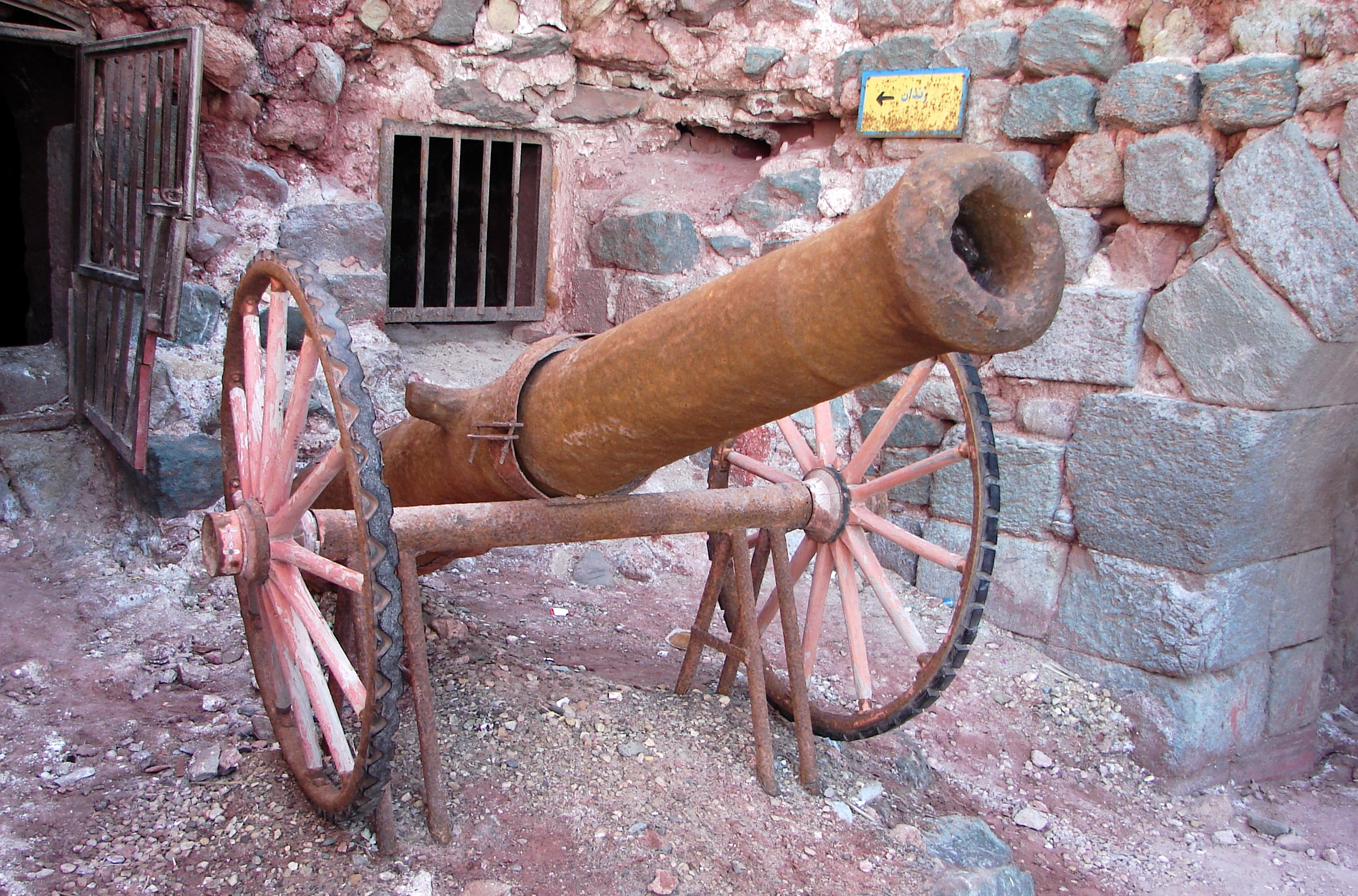 Here is the entrance (and a window) of prison of the castle. The dark prison contains about 10 nested rooms, and 5 pit dungeons.